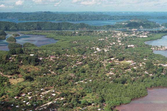 Aerial view of Koror